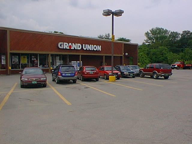 A photograph I took myself of a Grand Union store still operating in Johnson, Vermont.